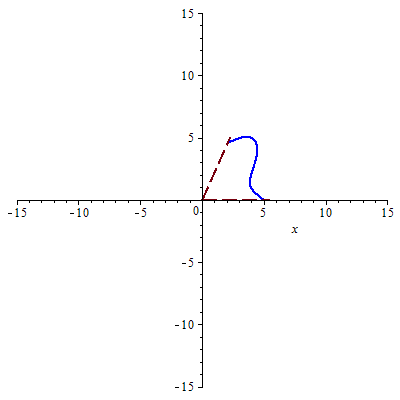 Example of generalized conic in the sense in which the term was used by Tom M. Apostol and Mamikon A. Mnatsakanian in their study of curves drawn on the surfaces of right circular cones. Parameter values: r_0=5, lambda=0.22, k=5.5